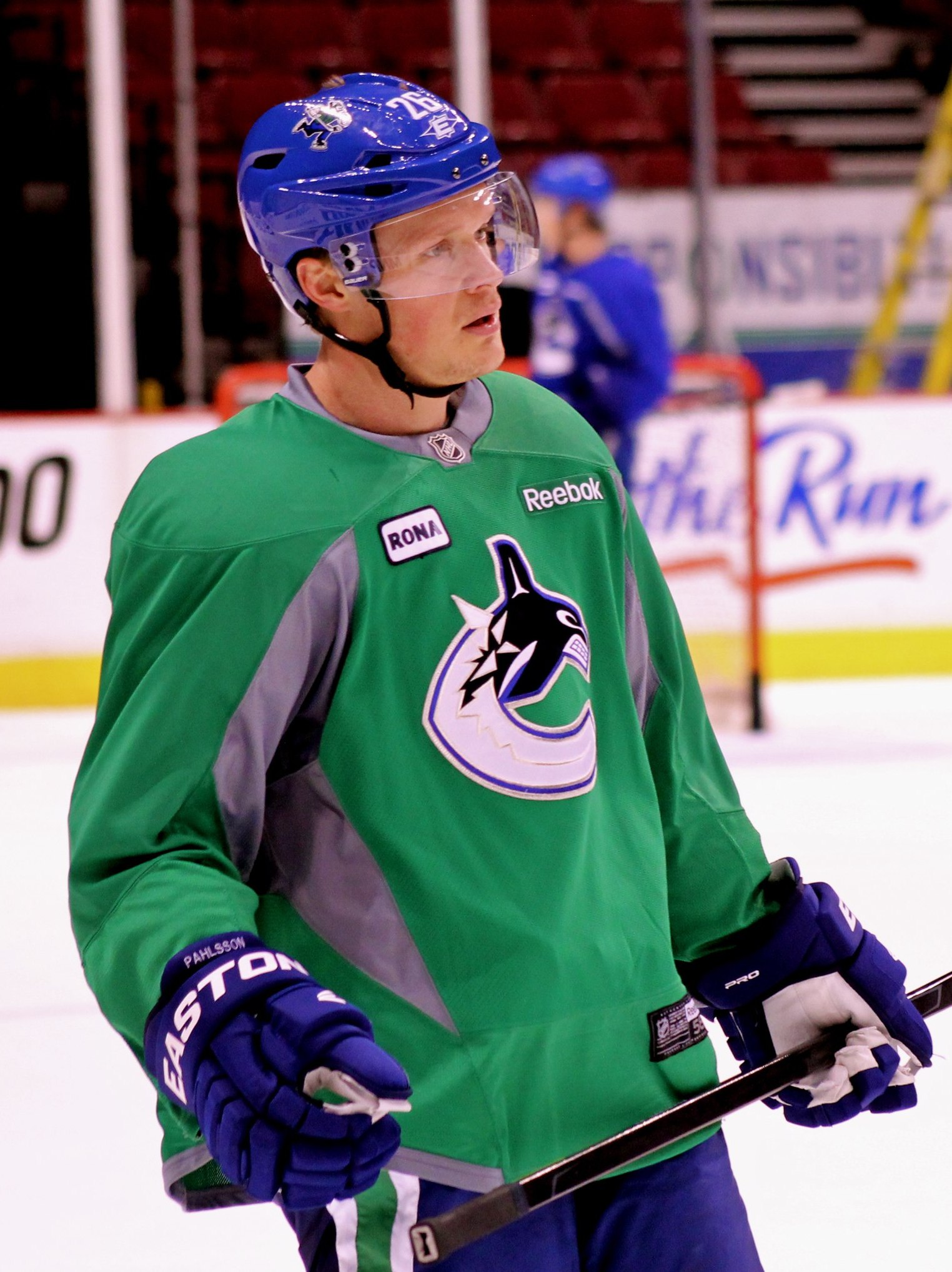 Vancouver Canucks forward Samuel Pahlsson during a practice on March 9, 2012.